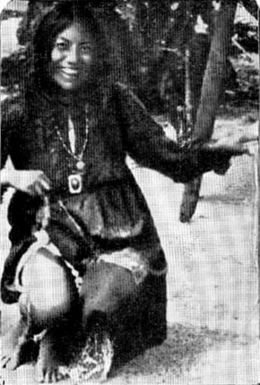 A Chamacoco lady preparing caraguatá fibers to weave.